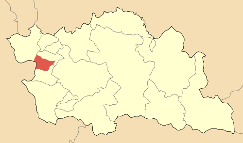 Locator map of Smixis community (Κοινότητα Σμίξης) at Grevena perfecture, Greece.